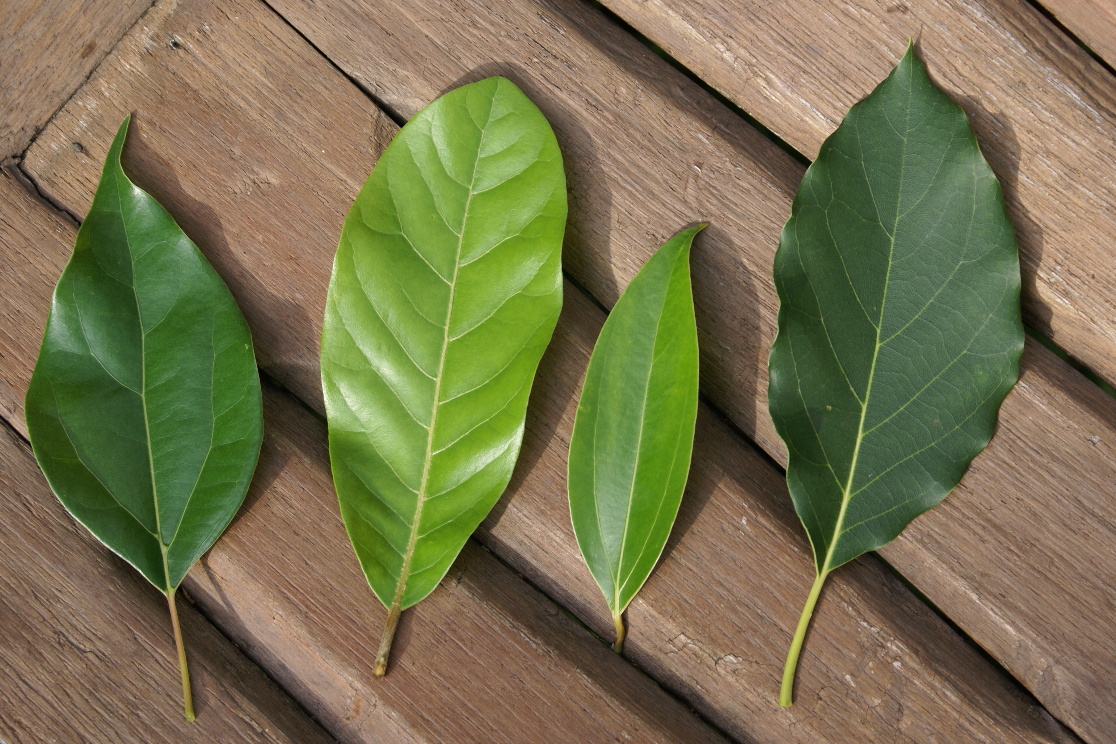 Four leaves of Lauraceae, from left to right : Cinnamomum camphora (Camphor tree), Litsea glutinosa, Cinnamomum aromaticum (Cassia), Persea americana (Avocado tree)